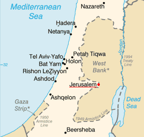 Jerusalem on the map